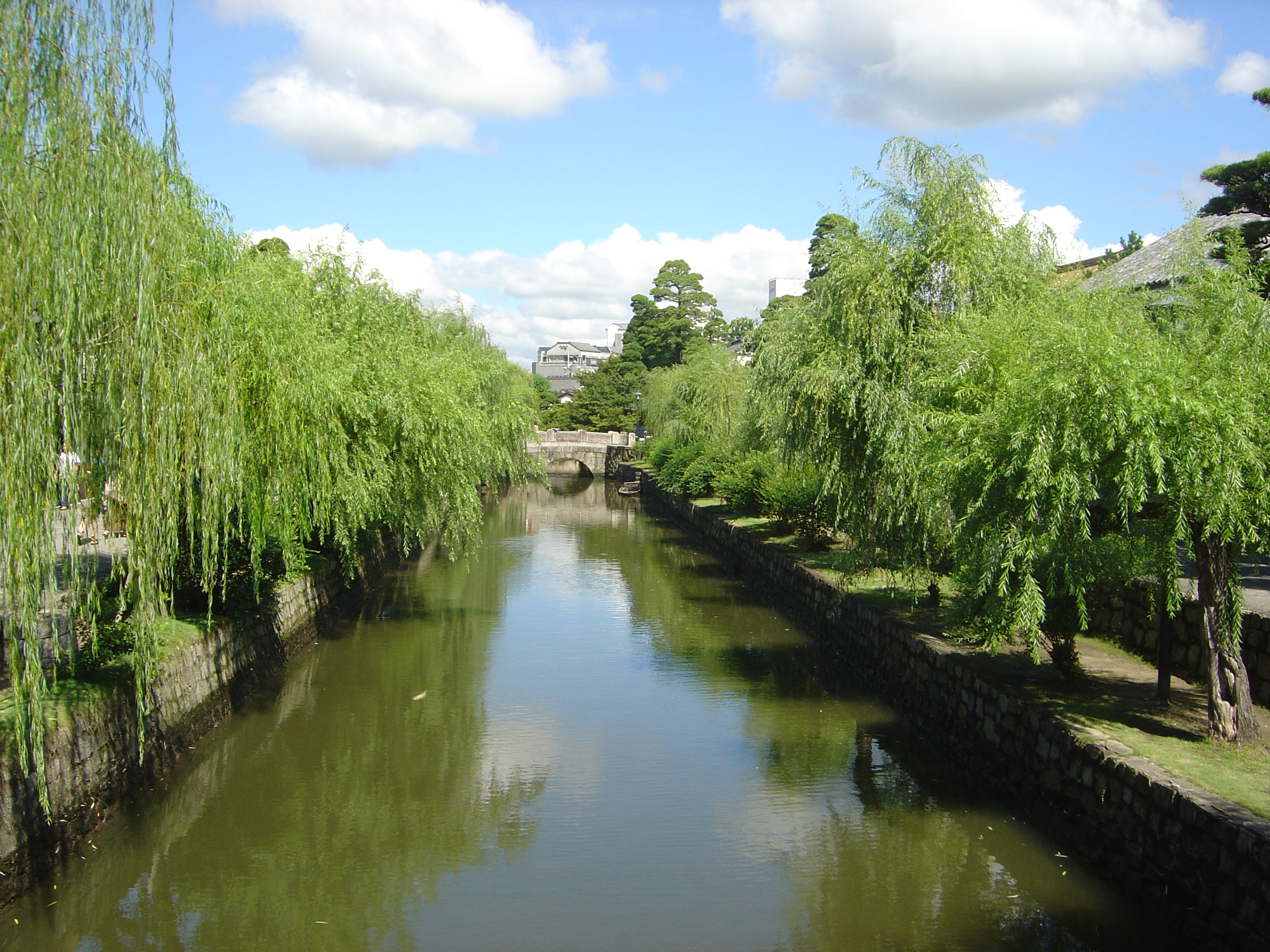 Canal in Kurashiki, Okayama Prefecture, Japan